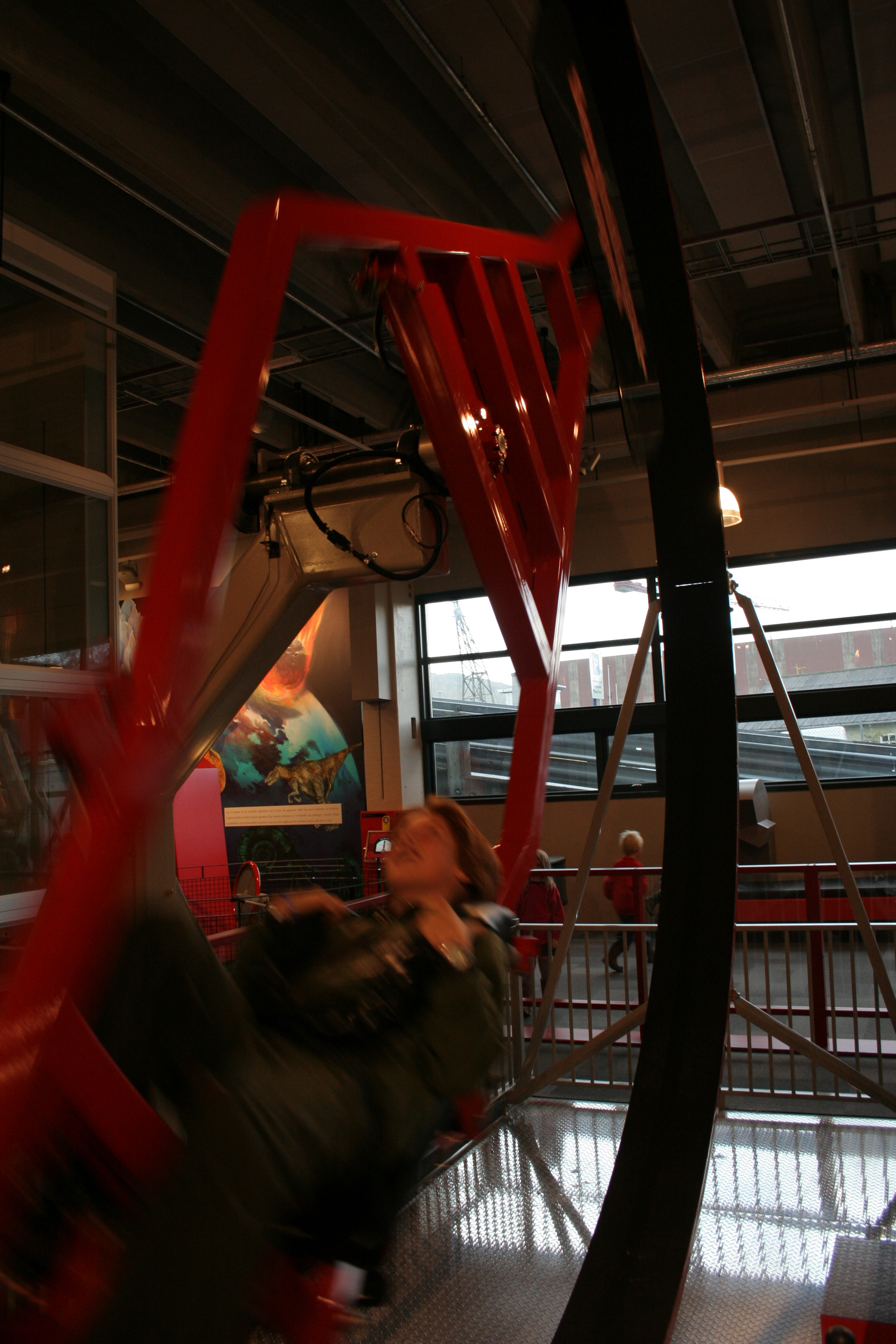 The 'Sentrifugalskapen', centrifugal-force bike, Bergen Science Centre.